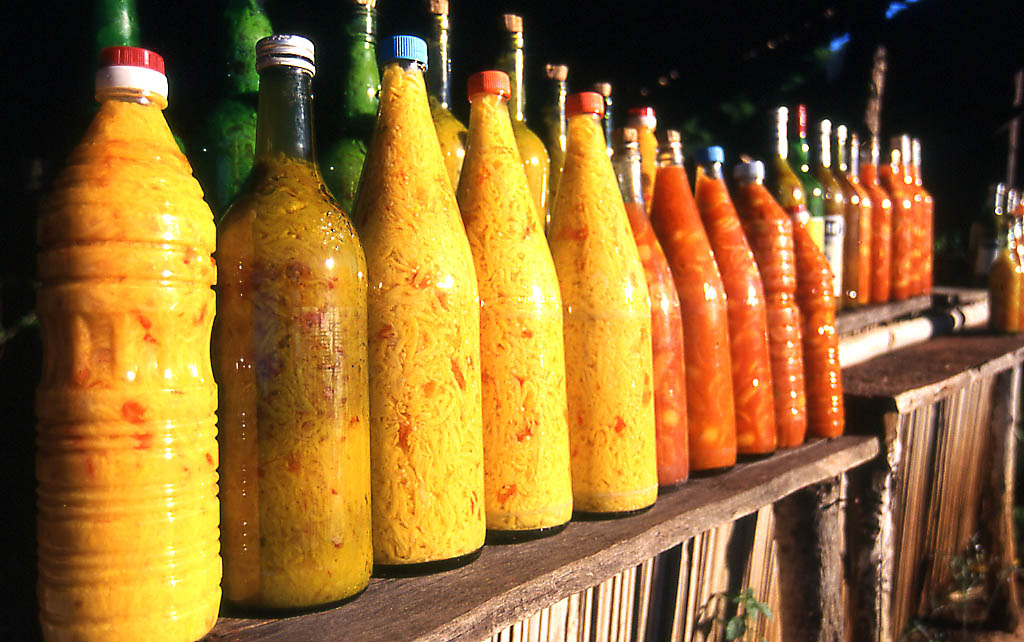 Lemon and mango achar (condiment) for sale in Madagascar